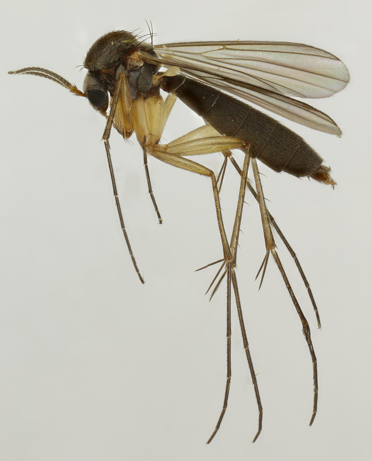 Exechia spinuligera, Trawscoed, North Wales, Dec 2015